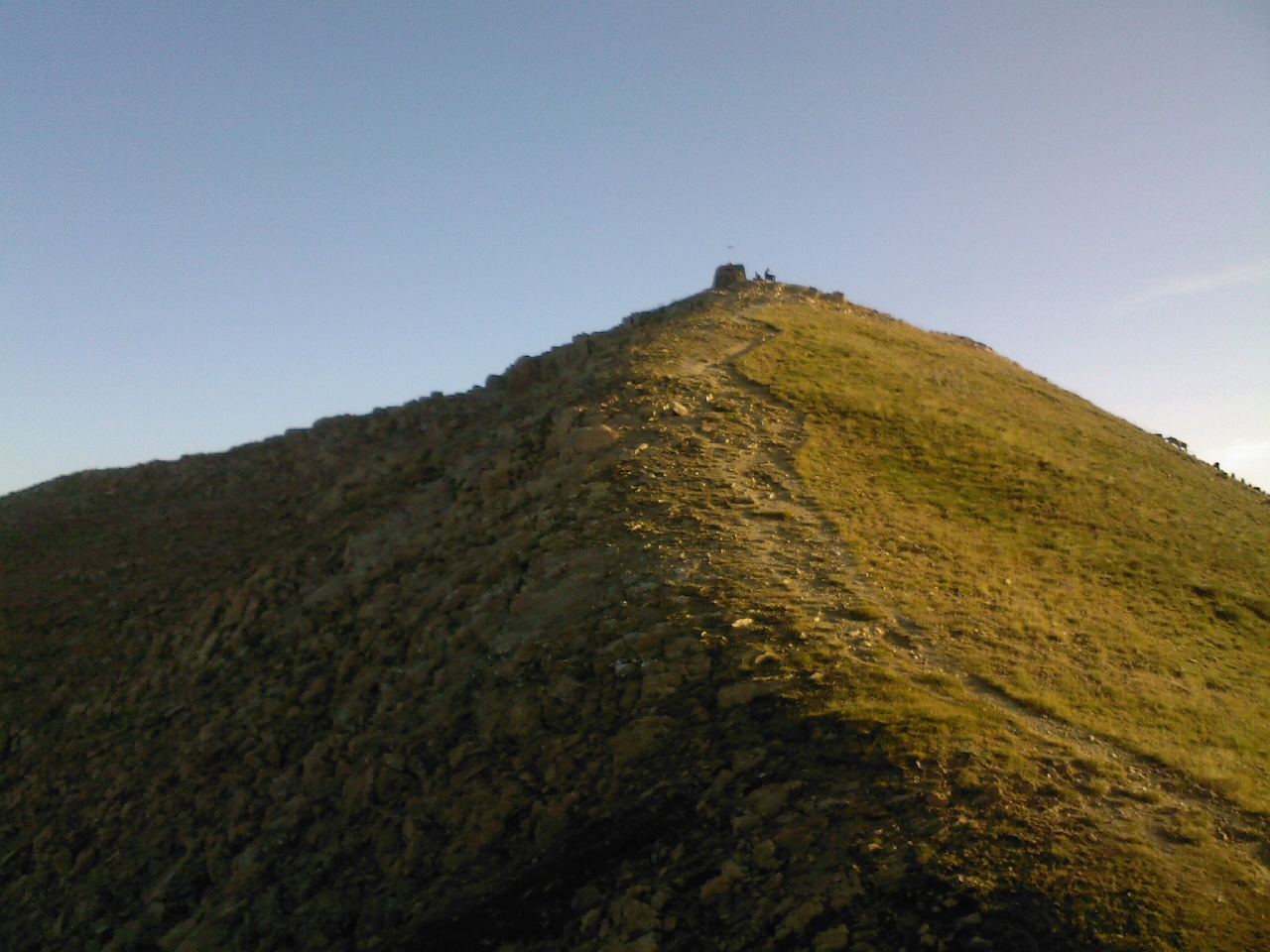 The summit of Casamanya, 2740 metres